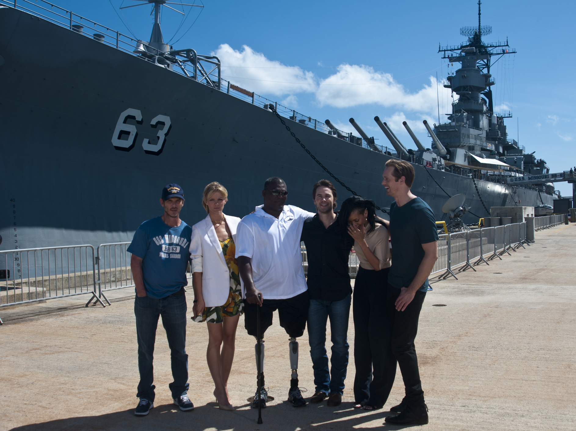 PEARL HARBOR (April 28, 2012) Peter Berg, left, direct of the science-fiction movie "Battleship" poses with cast members Brooklyn Decker, retired Army Col. Greg Gadson, Taylor Kitsch, Rihanna and Alexander Skarsgard in front of the USS Missouri Memorial at Joint Base Pearl Harbor-Hickam. The movie cast is attending events in Hawaii to promote the film's opening in the United States. (U.S. Navy photo by Mass Communication Specialist 3rd Class Dustin W. Sisco/Released) 120428-N-XD424-012 Join the conversation navylive.dodlive.mil